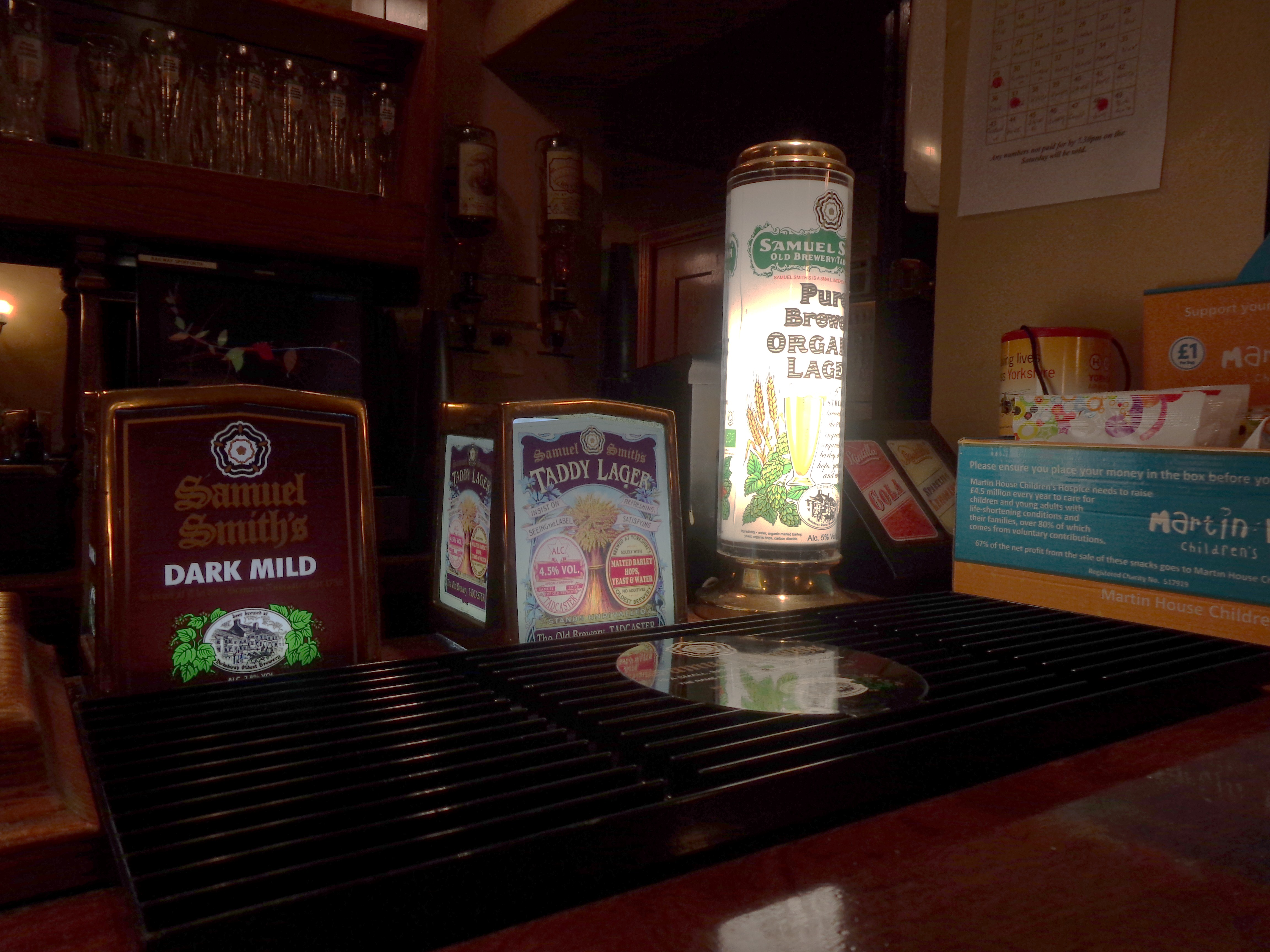 Beer taps, public bar, Railway Inn, Spofforth, North Yorkshire. Taken on the evening of Monday the 2nd of December 2013.